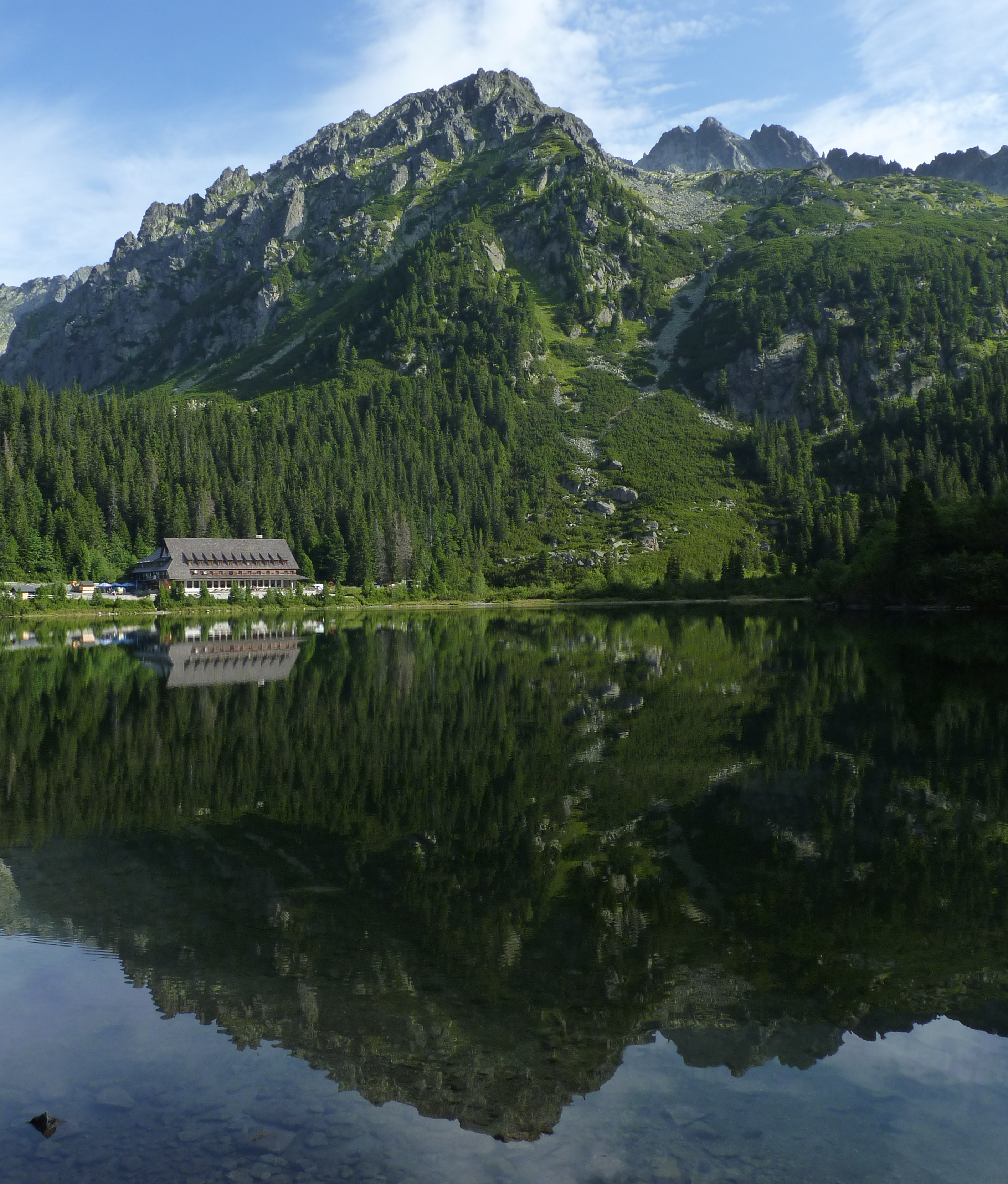 Popradské pleso and mountain hut. Mengusovská Valley, Tatra Mountains, Slovakia